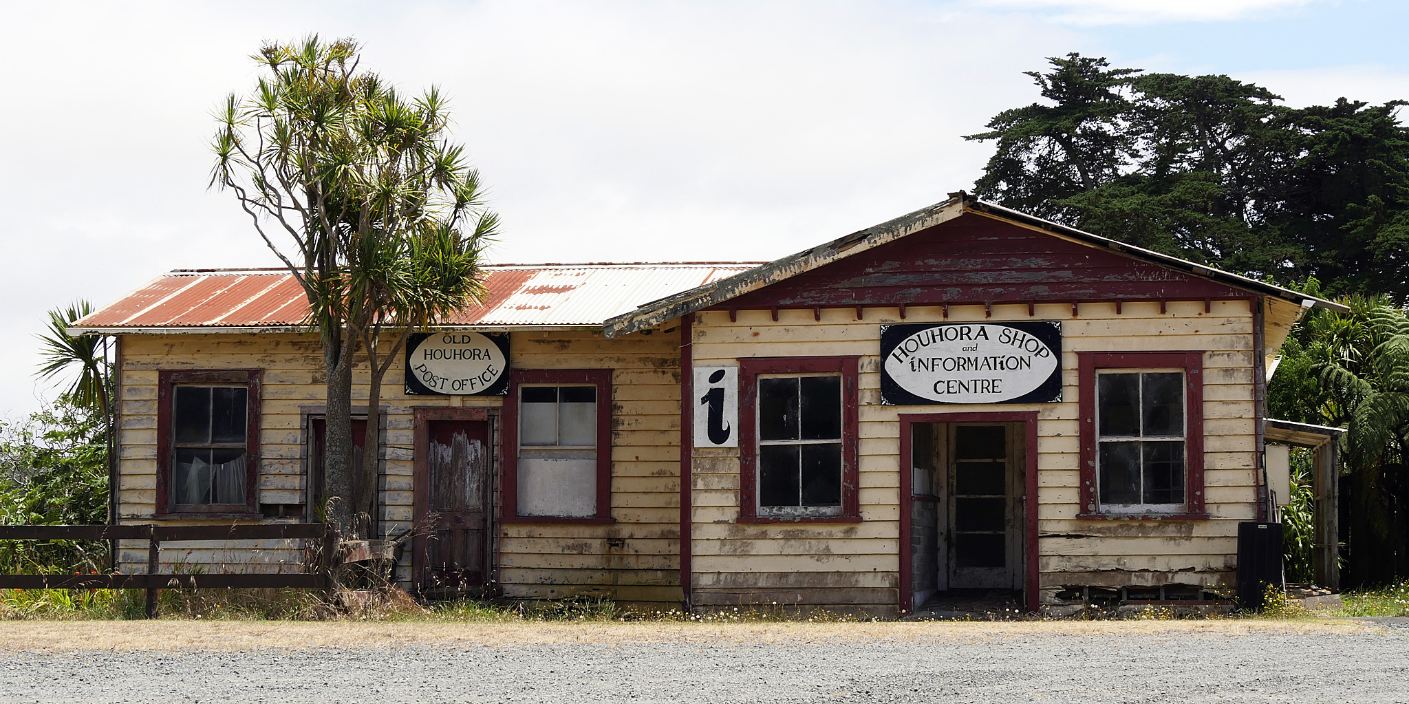 Houhora Post Office (former), Houhora, Far North District, Northland Region, North Island, New Zealand